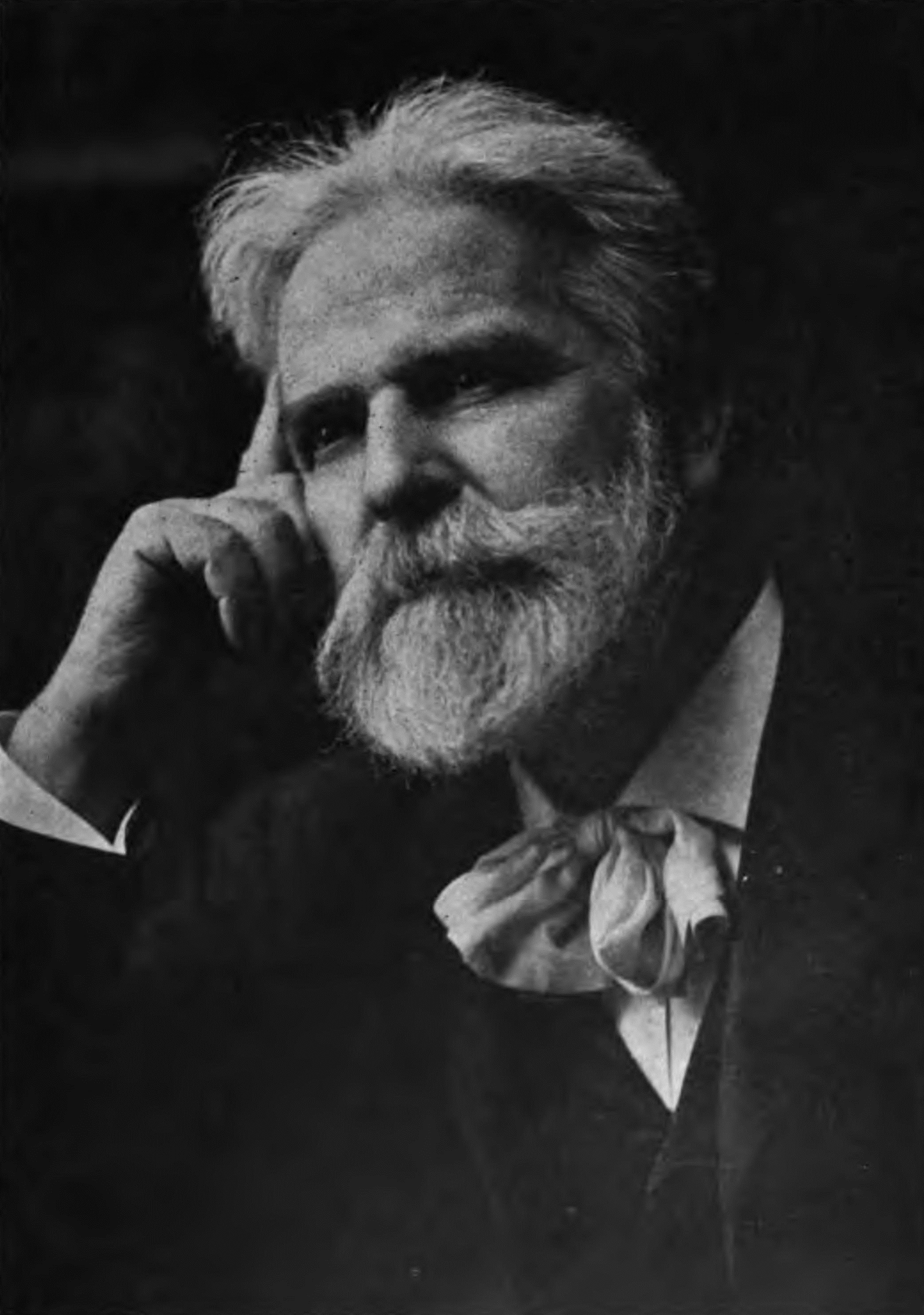 Edwin Markham